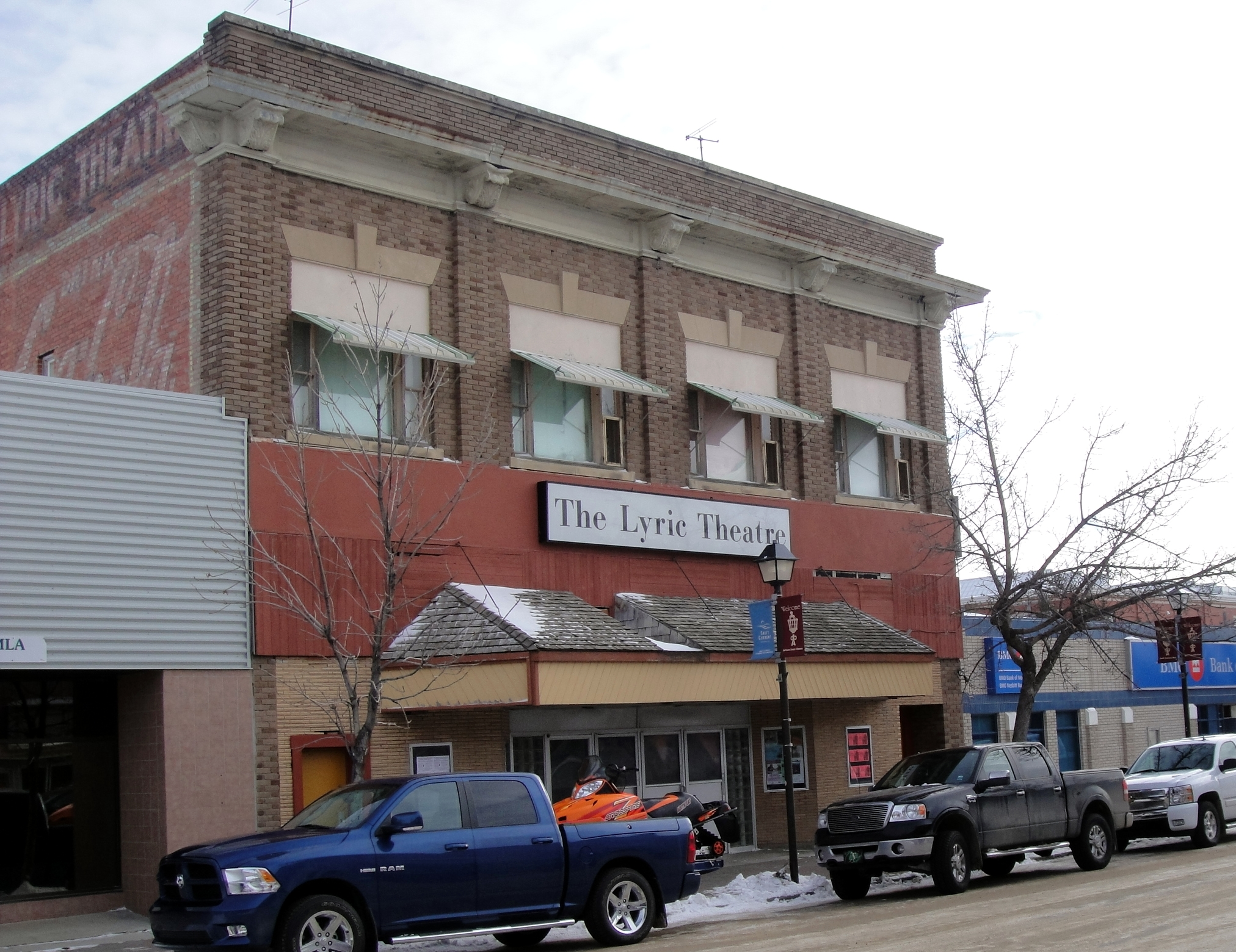 Lyric Theater in Swift Current, Saskatchewan